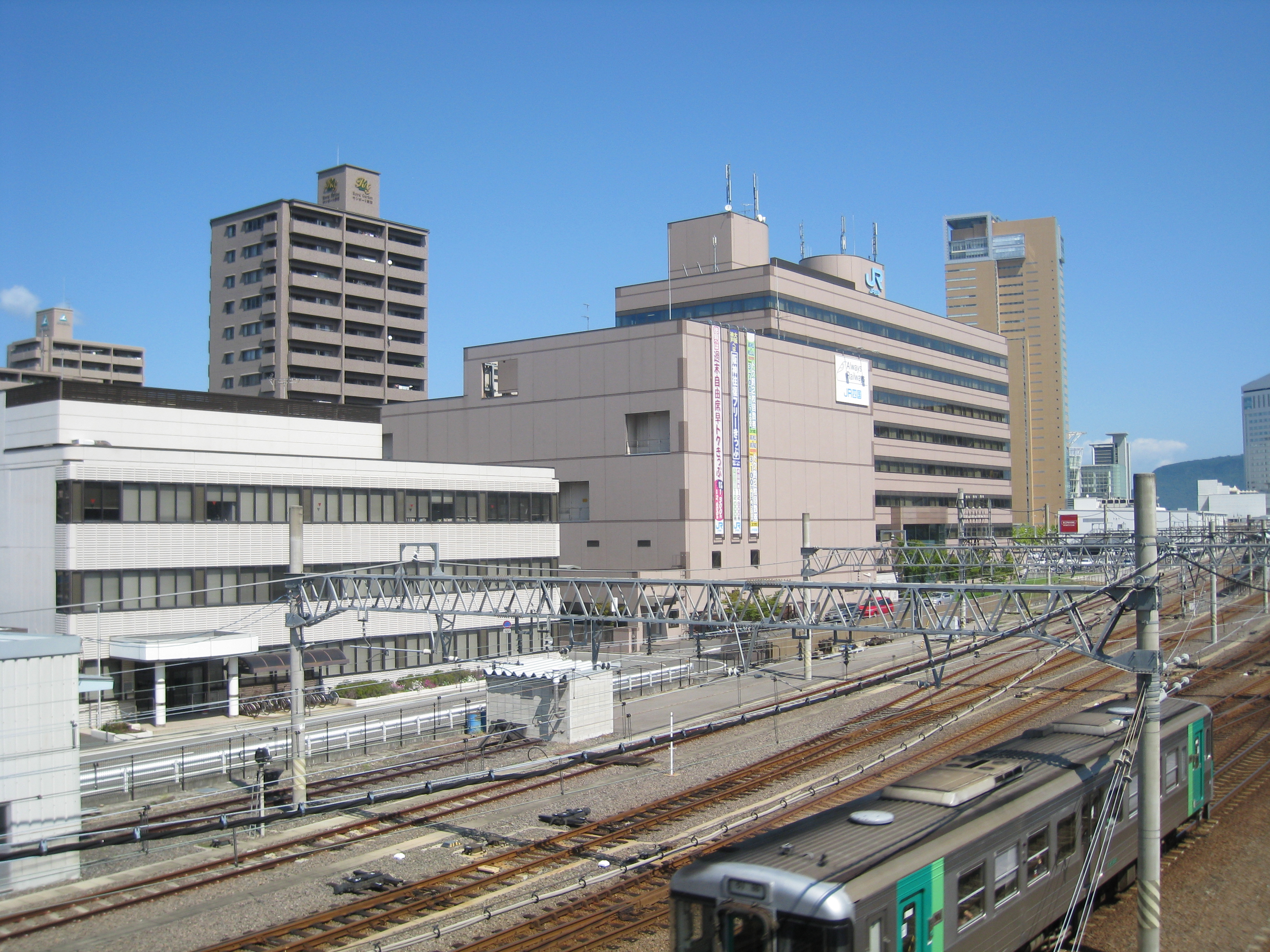 Shikoku Railway Company